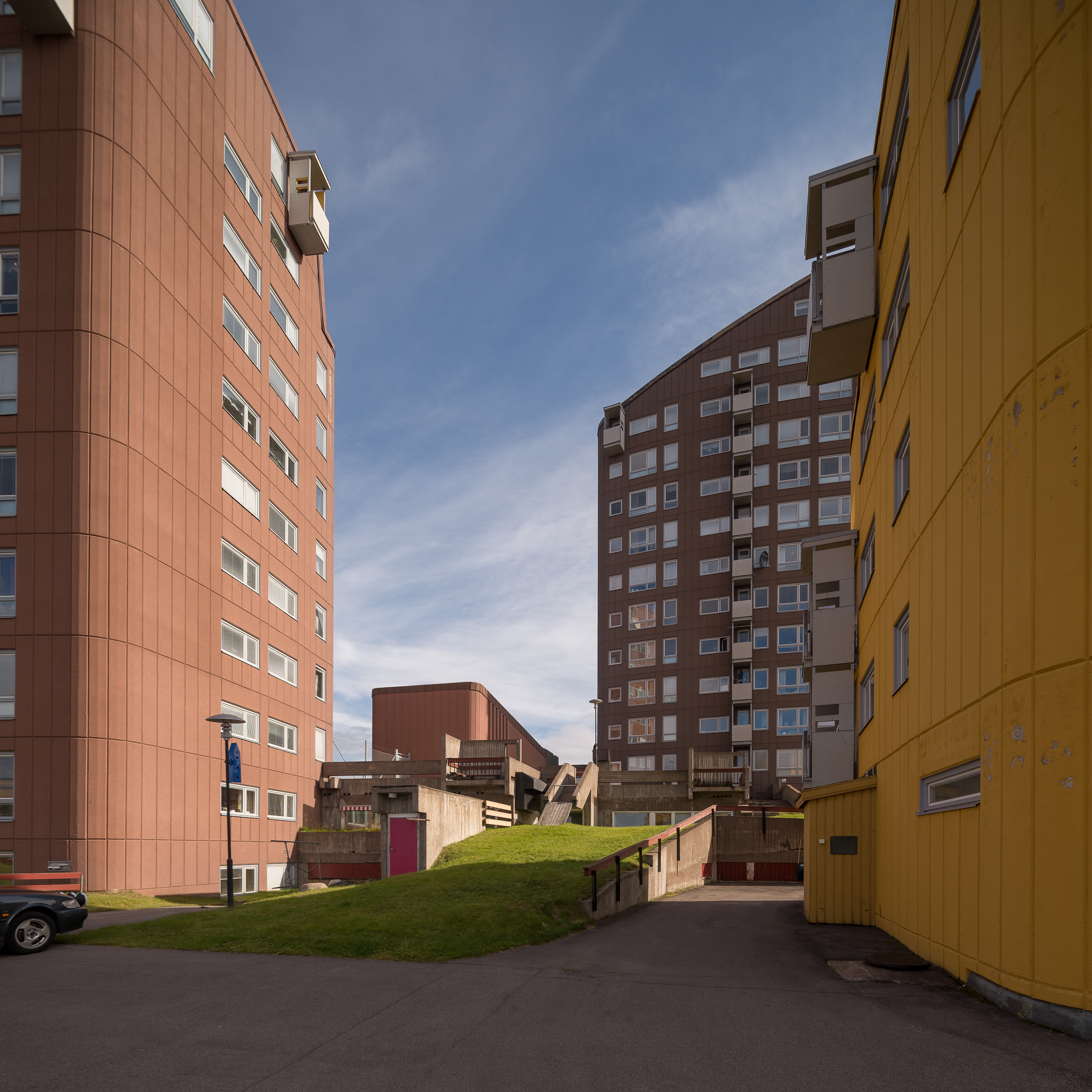 City block "Ortdrivaren" in Kiruna, Sweden. Built 1961. Architect Ralph Erskine.